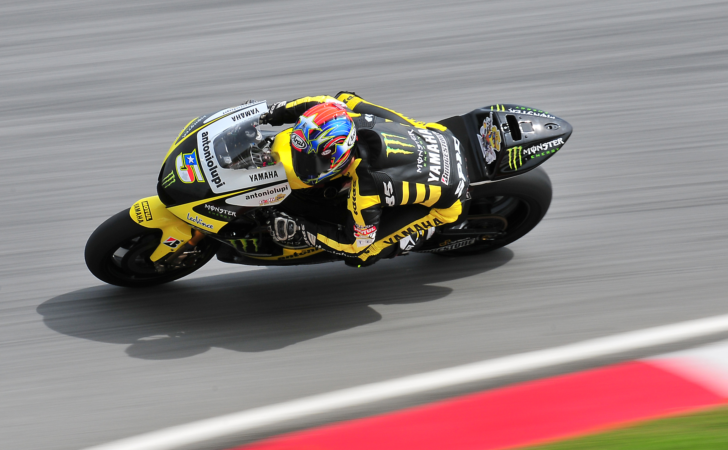 MotoGP 2011 Malaysia Test - Colin Edwards